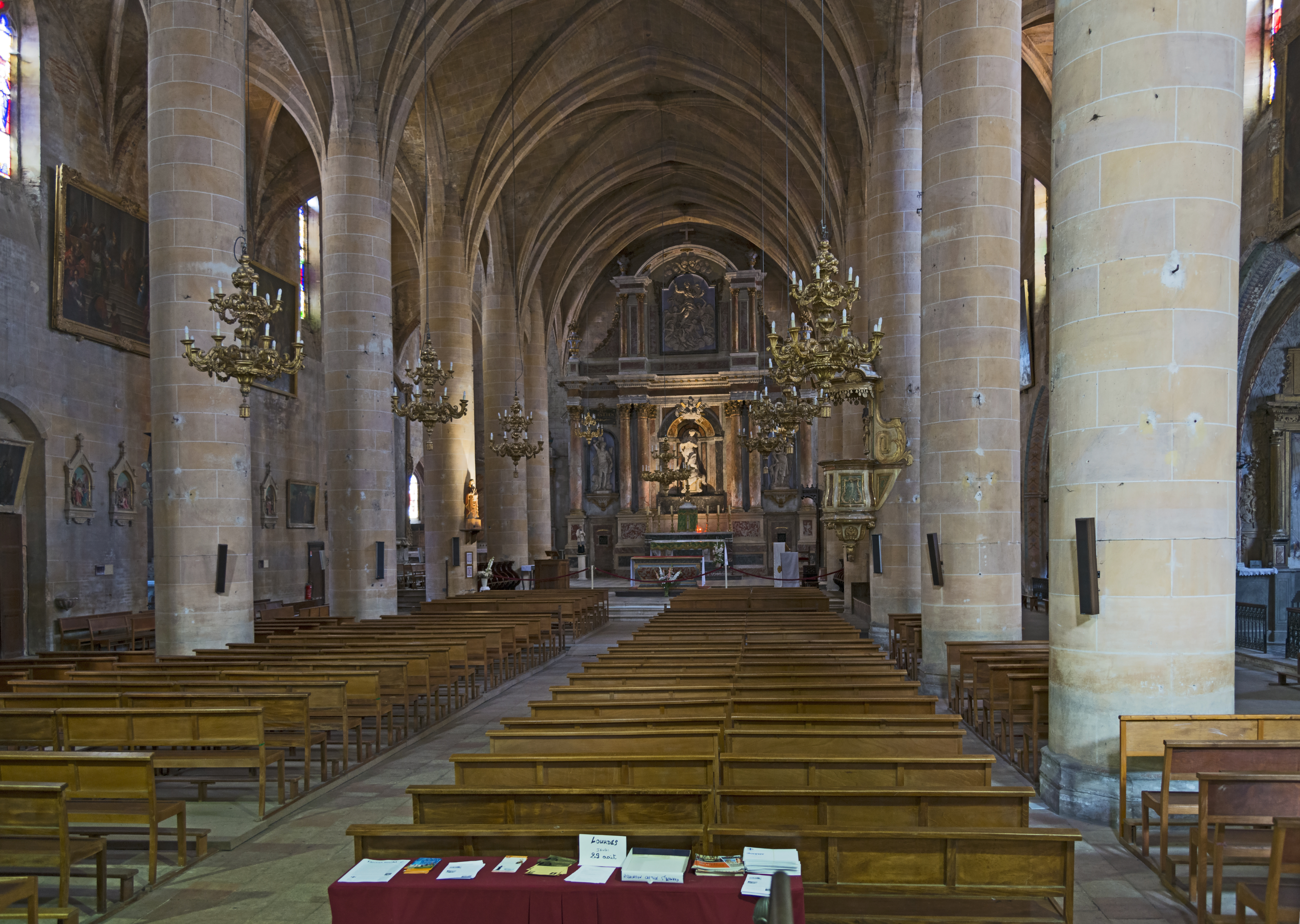 Grenade, Haute-Garonne, France. Interior of the church ’’Église Notre-Dame de l'Assomption””.